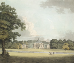 18th century Aquatinted print by the engraver J G Wood. Published aprox. 1742. Public domain by virtue of age